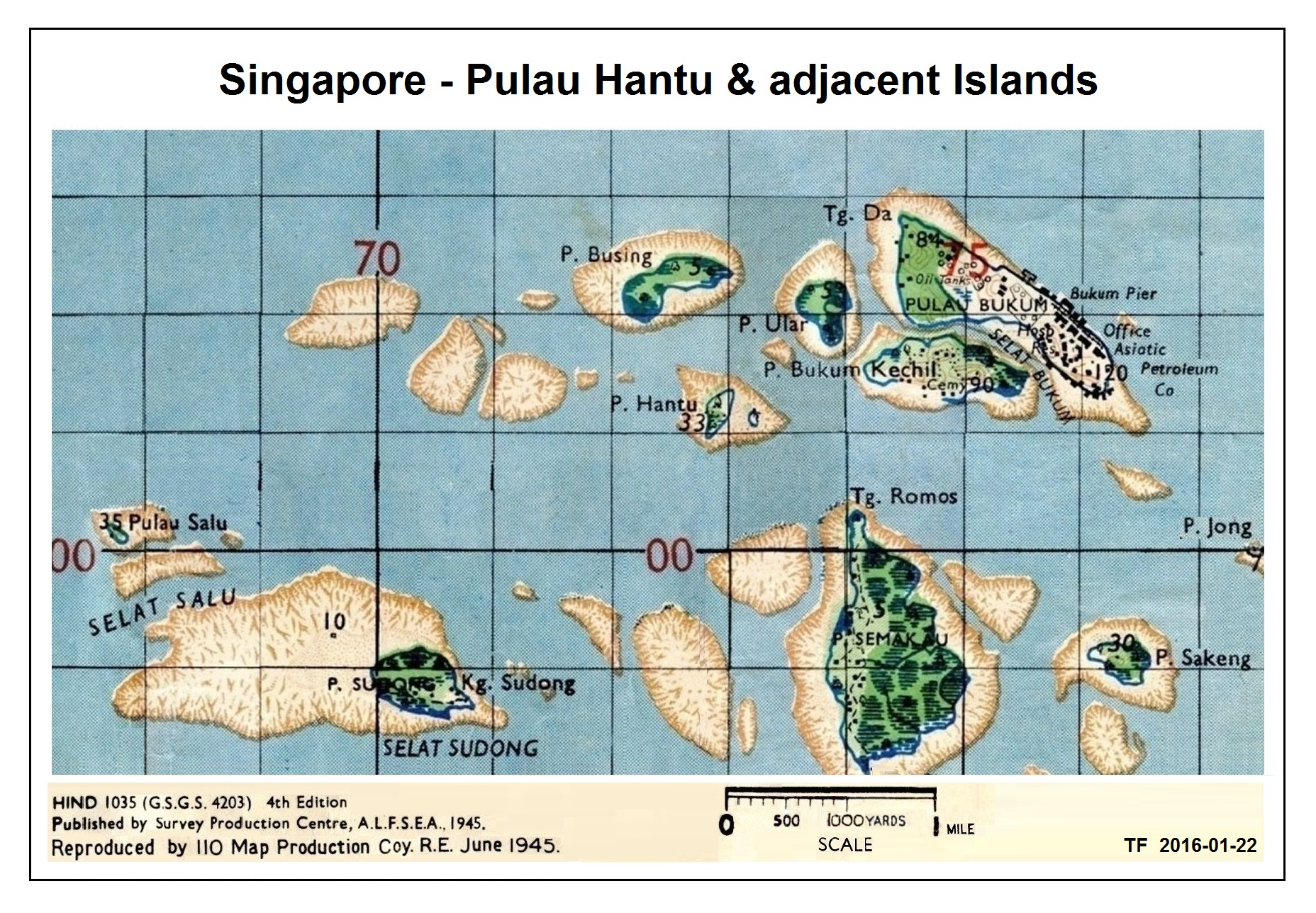 Extract from 1945 map of Singapore - showing the extent of coral reef in these offshore islands